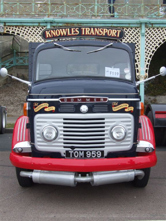 Commer 1956 tractor unit The front-mounted exhaust silencer shows that this is fitted with the Commer TS3 disel engine.